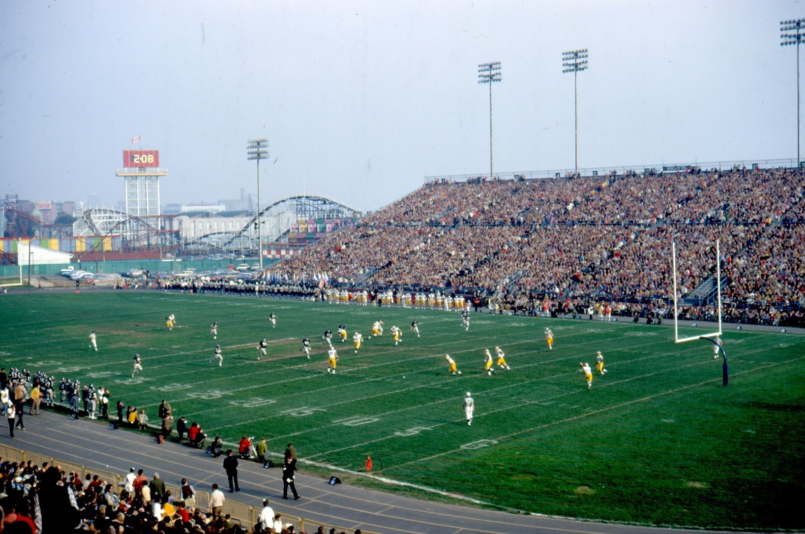 Toronto Argonauts vs Hamilton Ti-Cats kickoff at Exhibition Stadium Fall of 1971